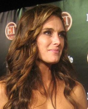 Actress Brooke Shields